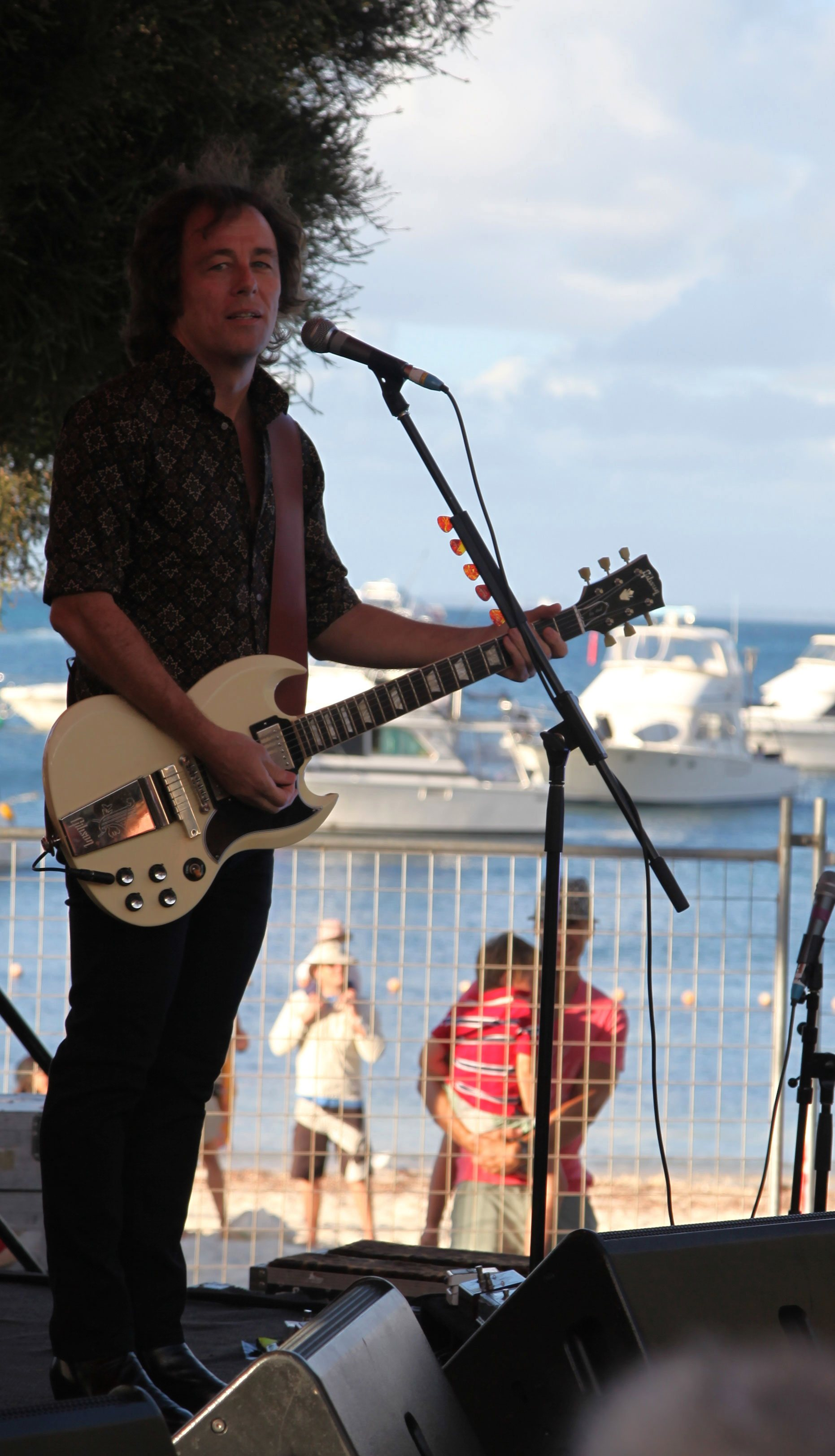 brad shepherd playing guitar with the Hoodoo Gurus at Rottnest Island 29 Apr 2012.